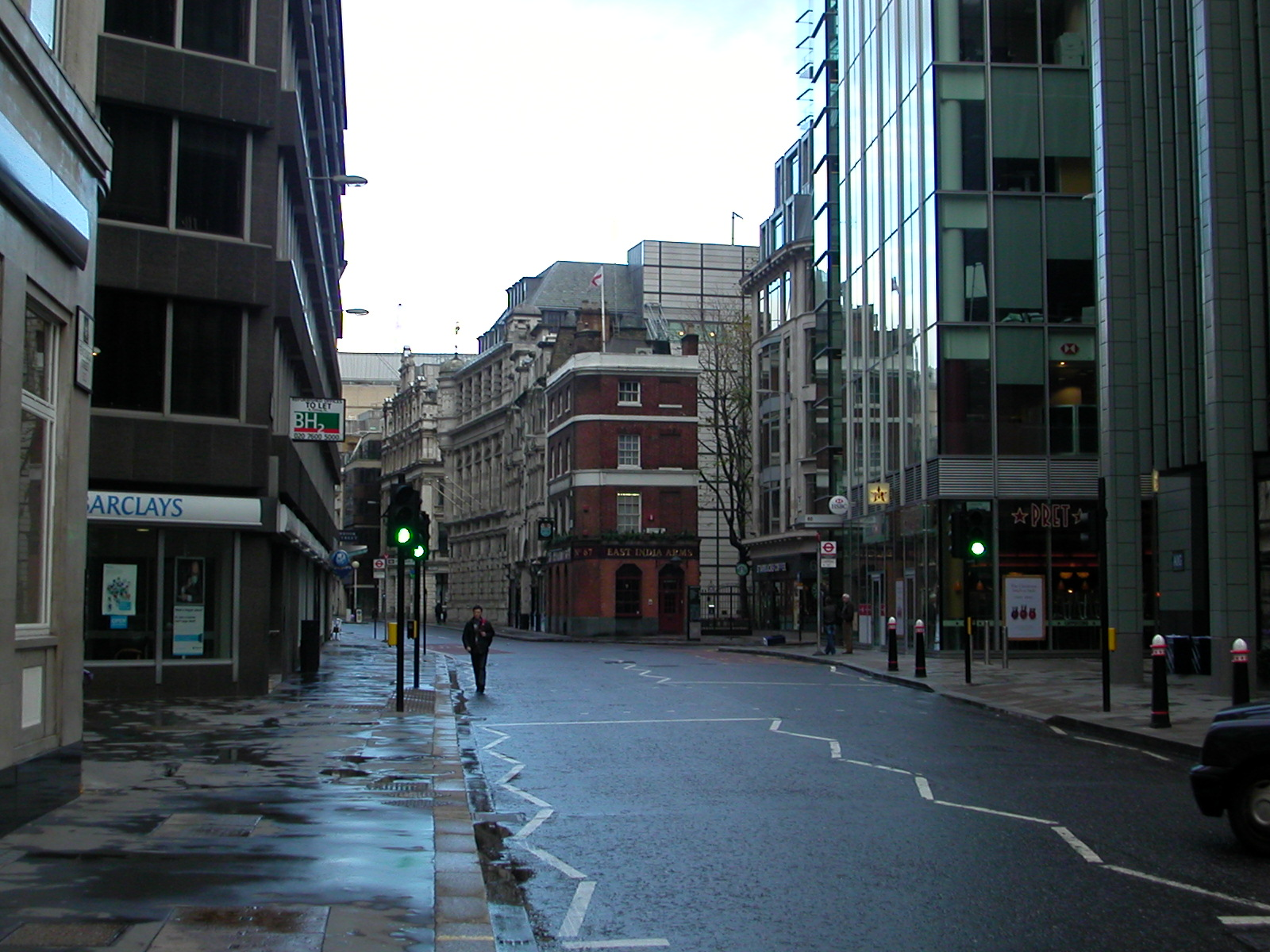 Fenchurch Street looking east.